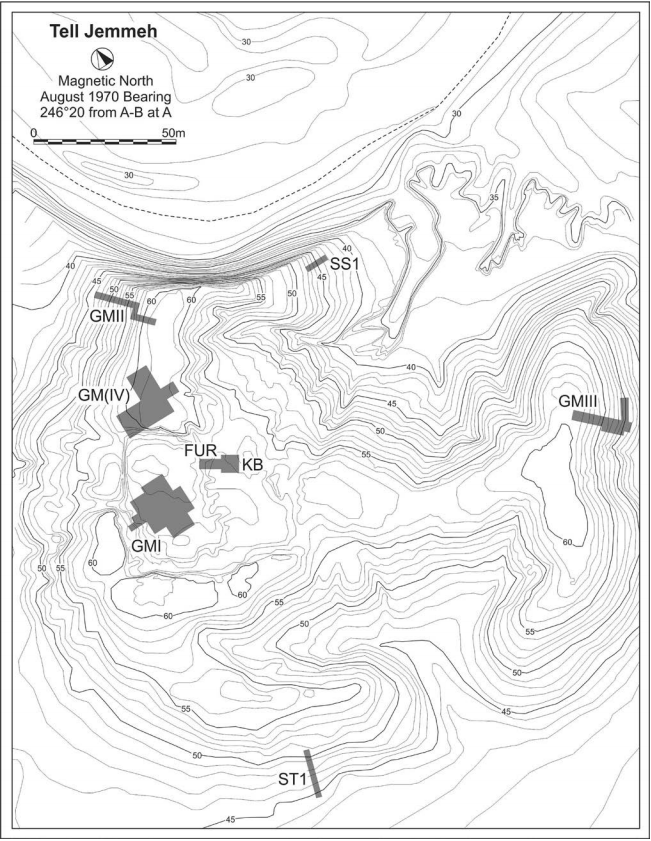 Detailed map of Tell Jemmeh, Israel